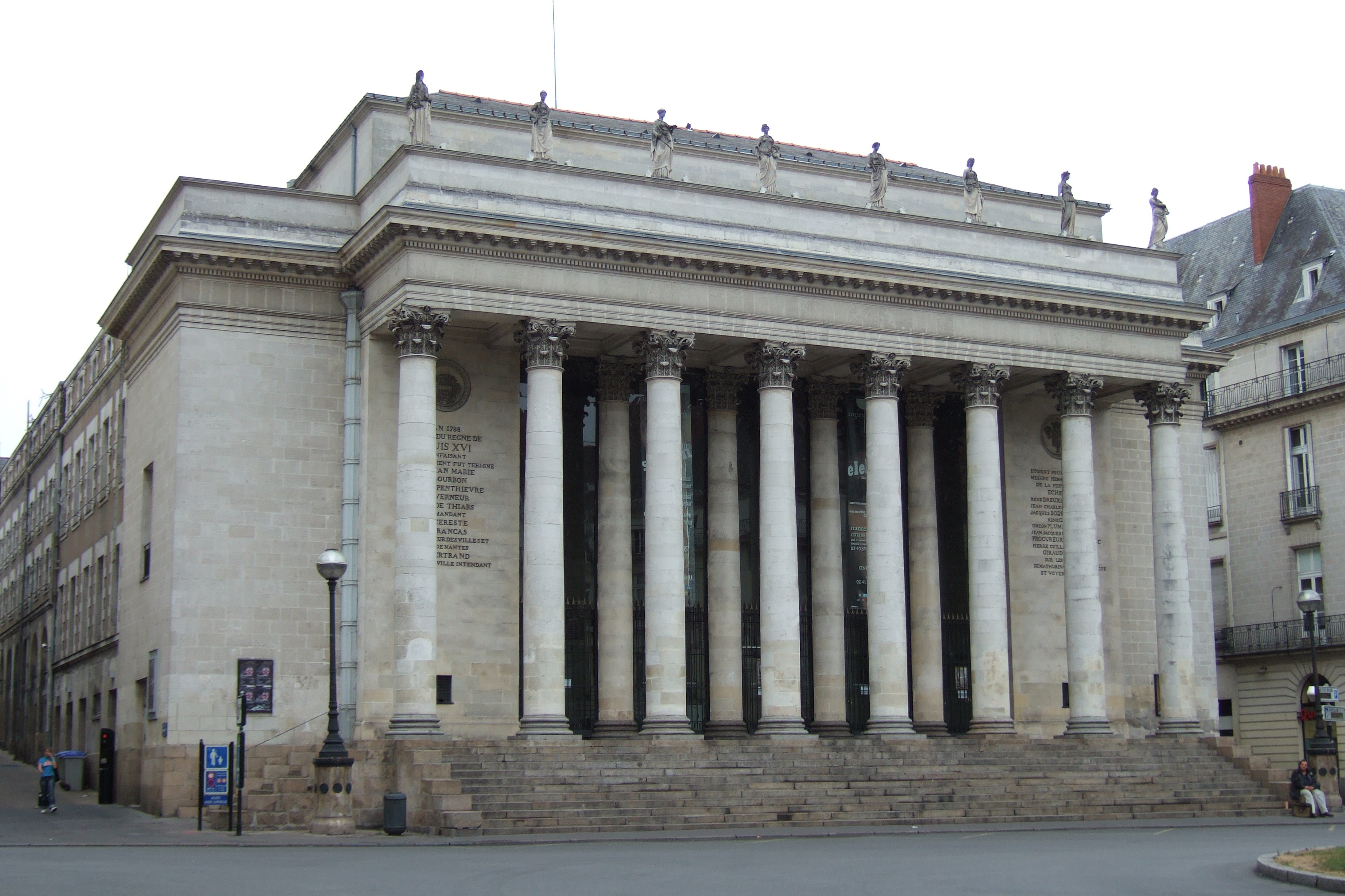 Théâtre Graslin in Nantes, France.